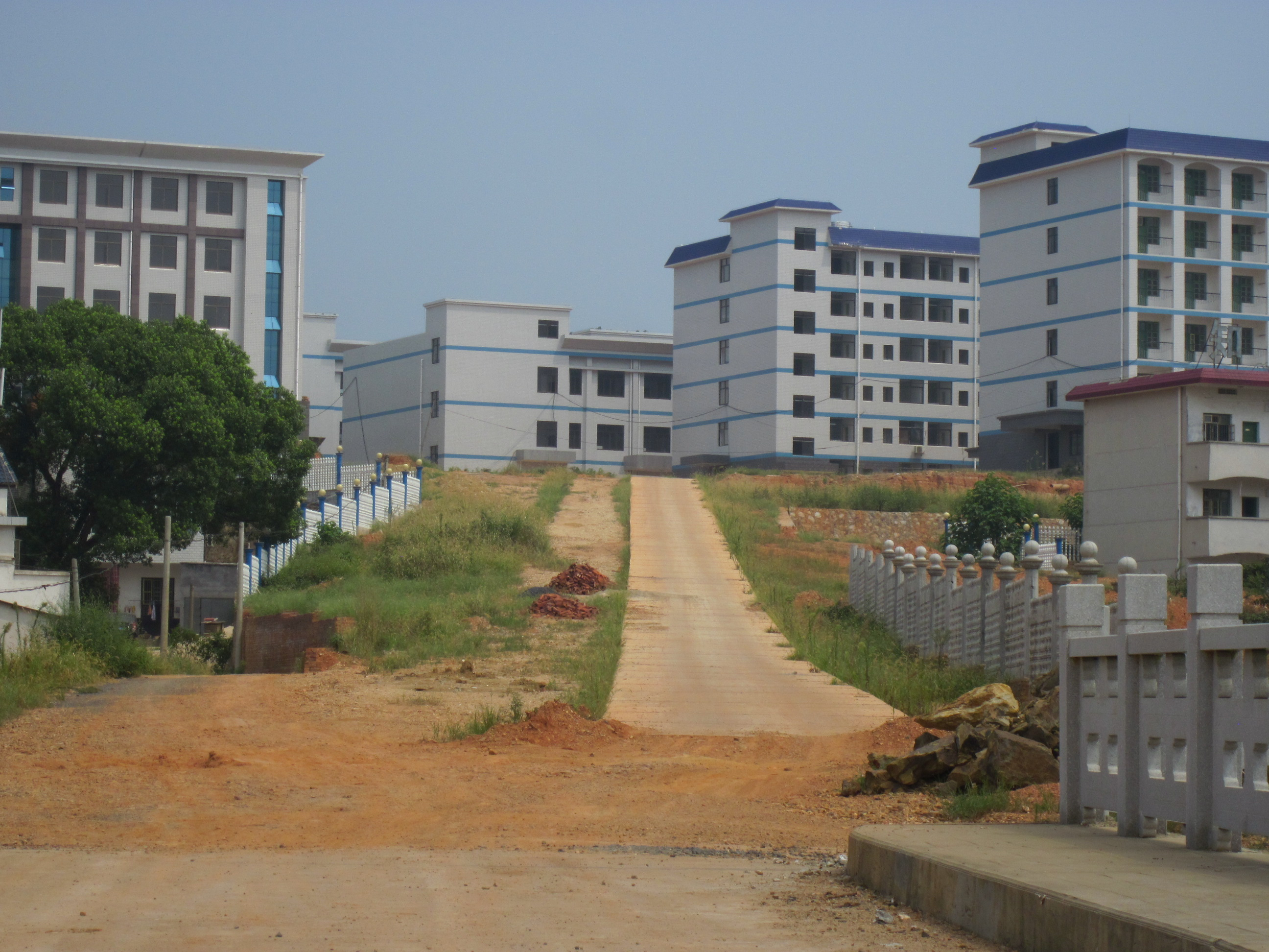 Shaoshan Vocational Technical Secondary School